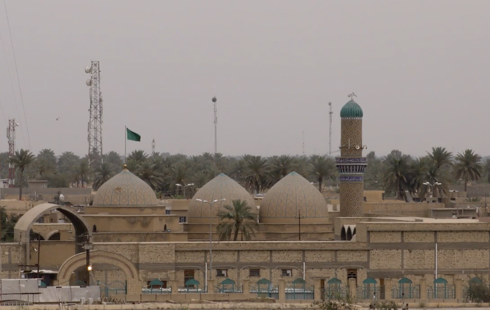 Tomb of Salman the Persian in Ctesiphon / Al-Madain, Iraq (2017). Photo by Persian Dutch Network